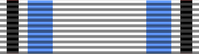 Bavarian Military Merit Order's ribbon - Bavaria (DE)